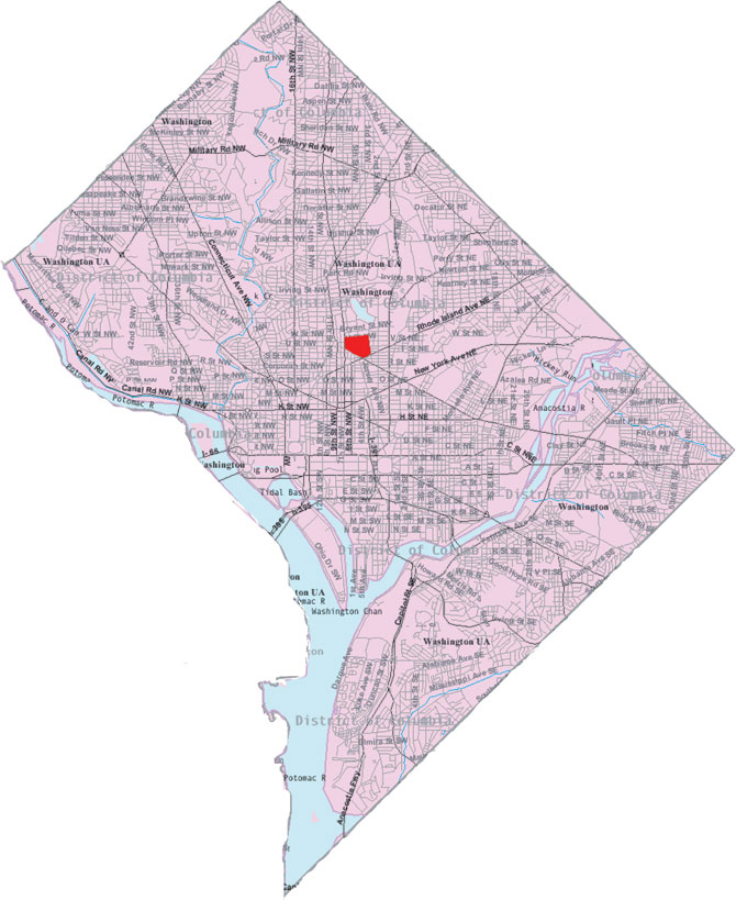 This image is a modified version of a self-generated reference map from the U.S. Census Bureau's American Factfinder at by Wikipedia user Msclguru.